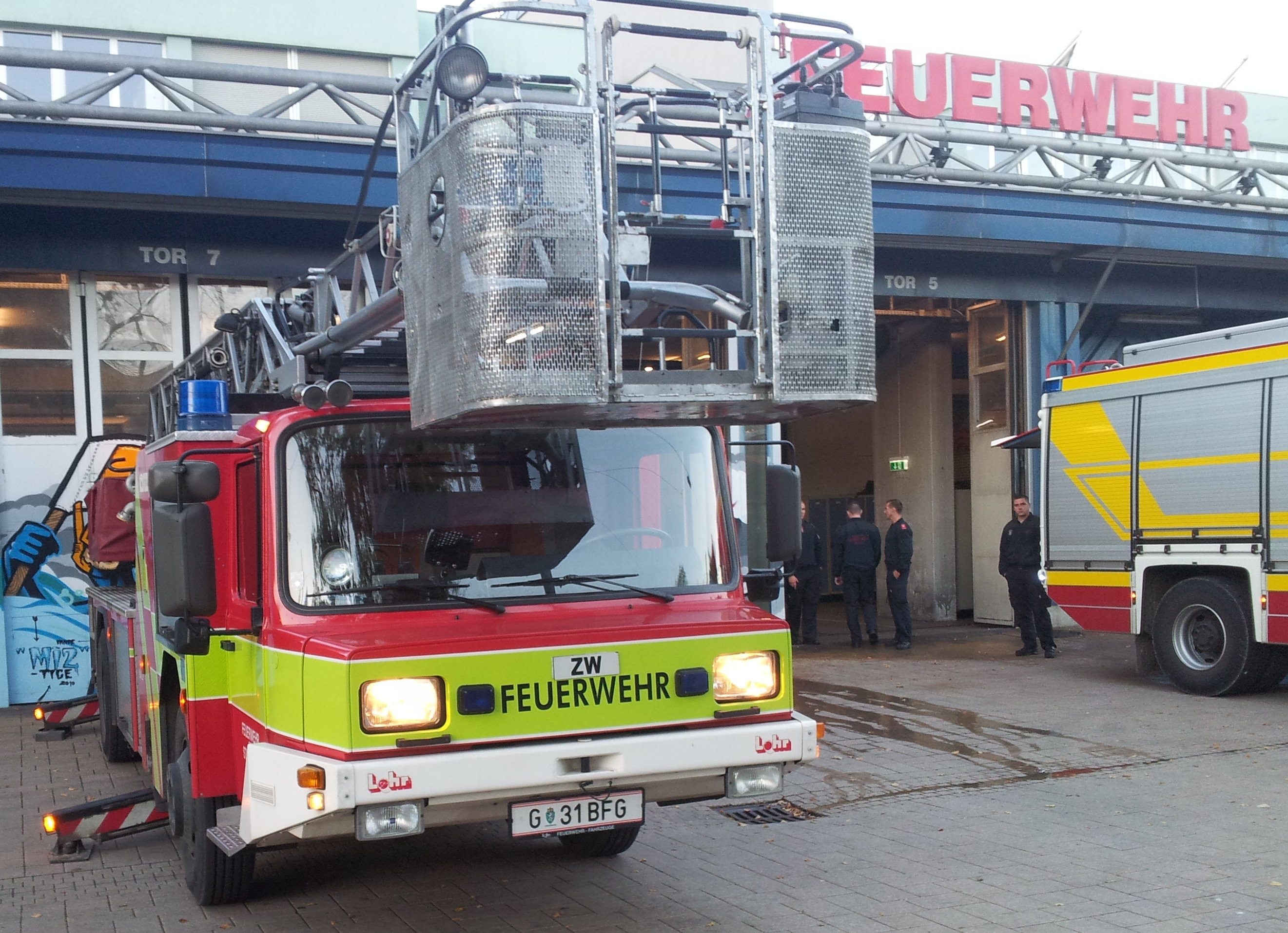 Take-over at the begin of a new shift at the central fire station in Graz at 7.30 am